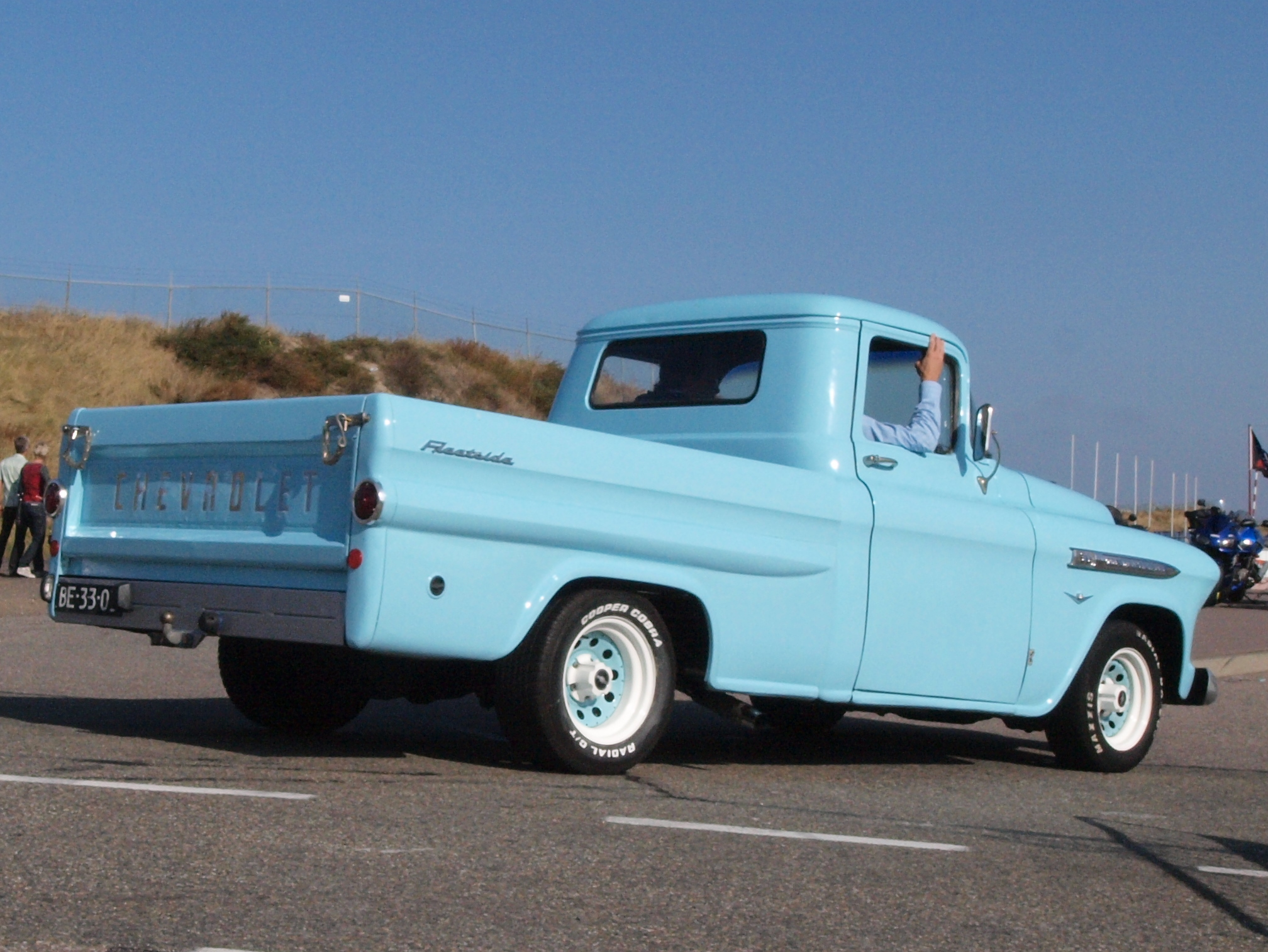 1958-59 Fleetside bed and 1959 fender emblem, but 1955-57 front fender and 1955-56 grille.Photographed at the Nationaal Oldtimer Festival Zandvoort 2009, The Netherlands. OLYMPUS DIGITAL CAMERA